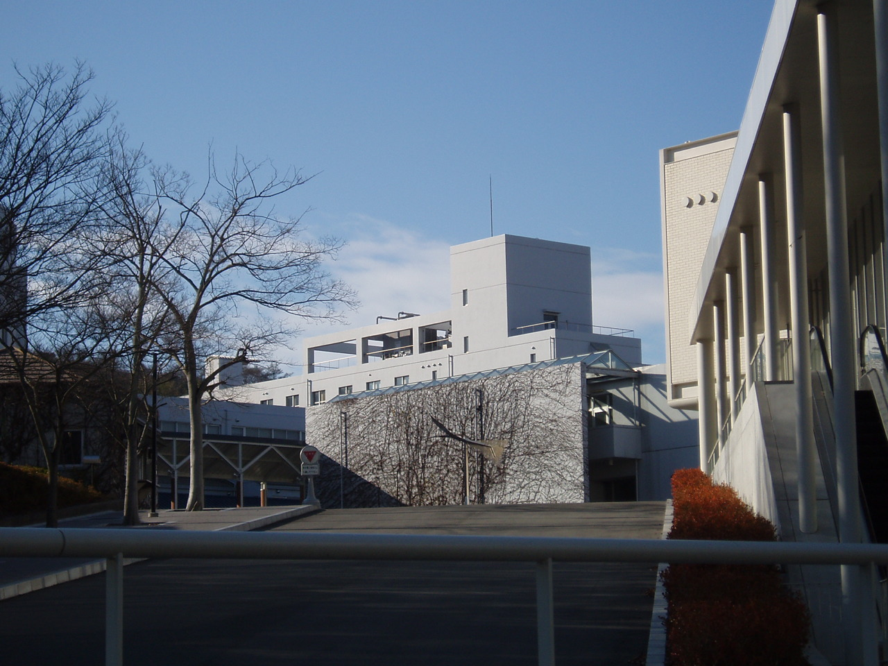 Kobe Design University, located in Nishi-ku, Kobe, Japan.